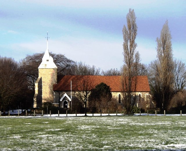 St Mary's Church, North Shoebury. Much of this church dates back to the thirteenth century. Situated beside an extensive green, it represents a rural oasis in an increasingly built-up area. Taken looking north from behind the Asda supermarket.